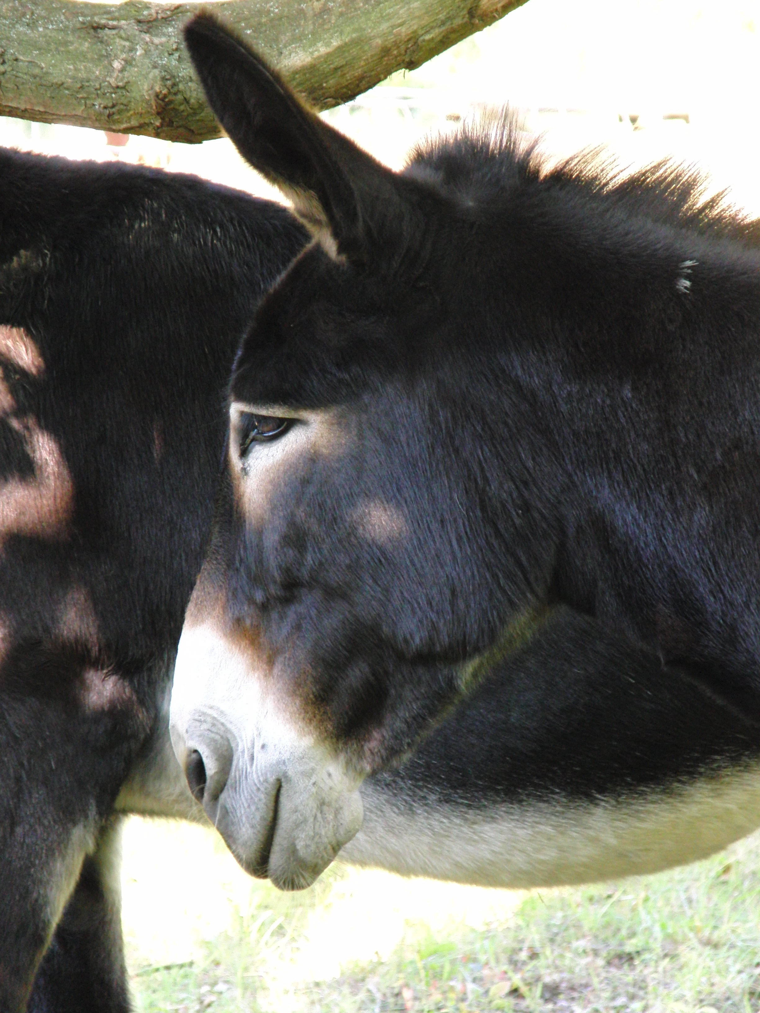 Grand noir du Berry donkey, Écomusée d'Alsace, France